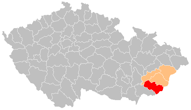 District of Uherské Hradiště